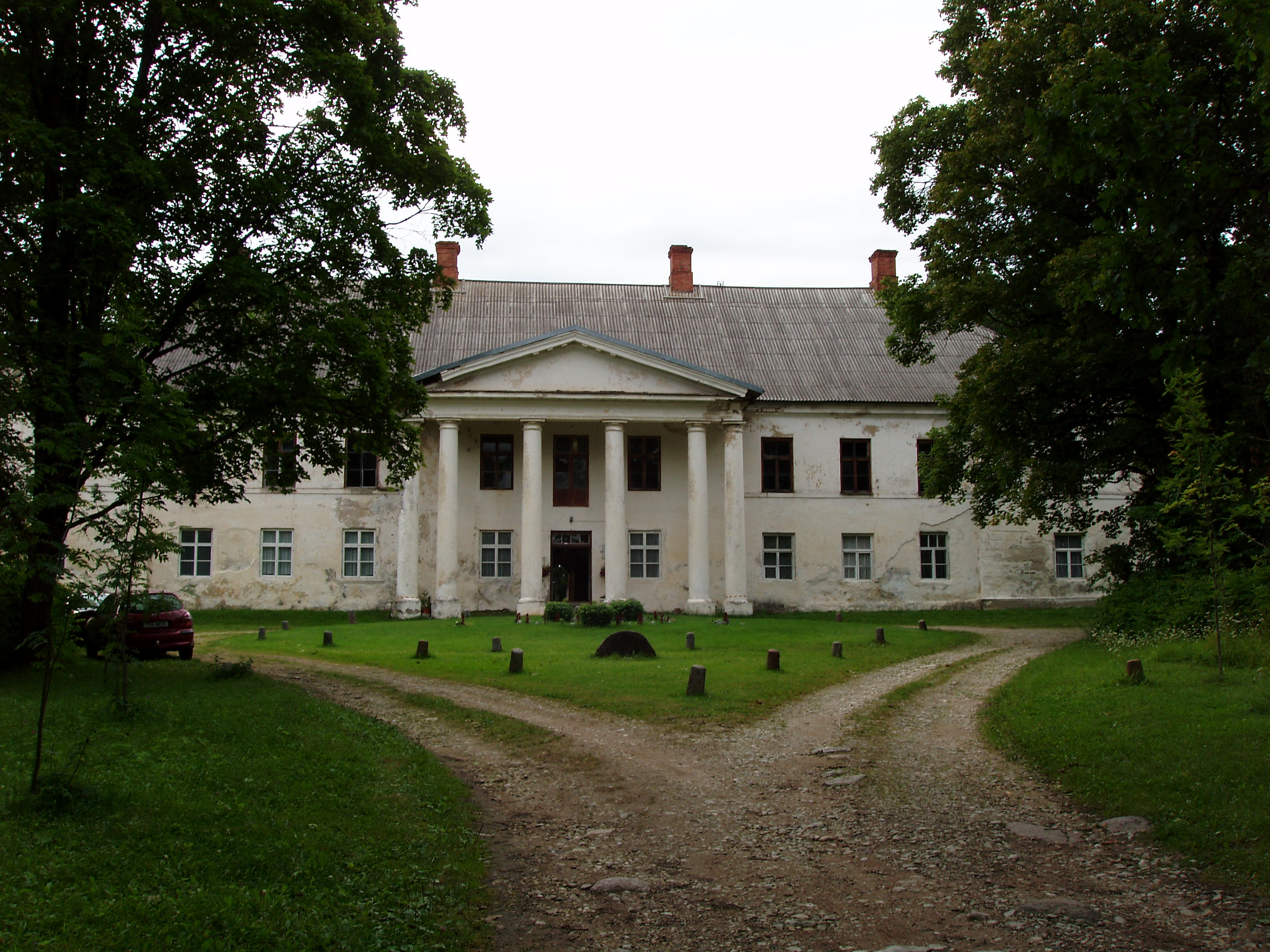 Kirna manor house.